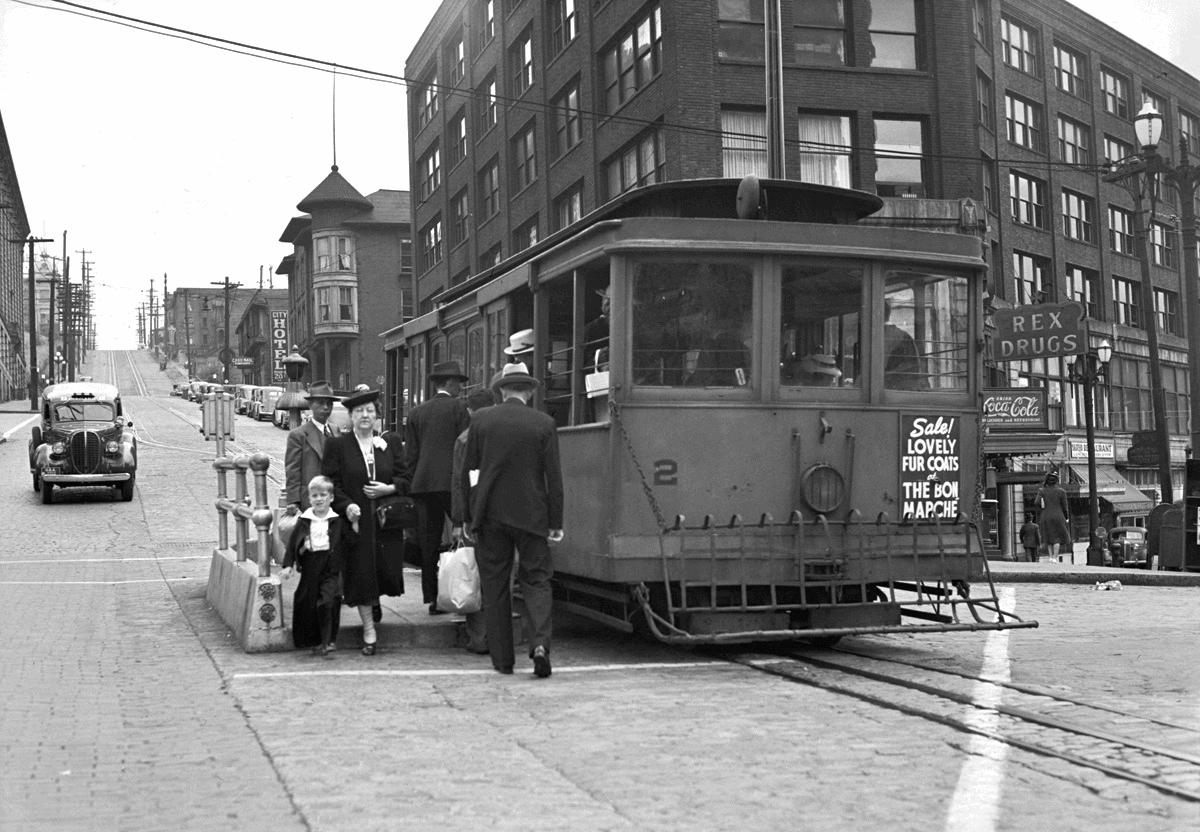 Seattle cable car 2 on Yesler Way at Third Avenue in downtown Seattle, in 1940. The Yesler Way line was one of several cable railways in Seattle, but was the last to close. The last three lines all closed in 1940: The Madison Street line in February, the James Street line in April and the Yesler line in August.Item 39621, Engineering Department Photographic Negatives (Record Series 2613-07), Seattle Municipal Archives.